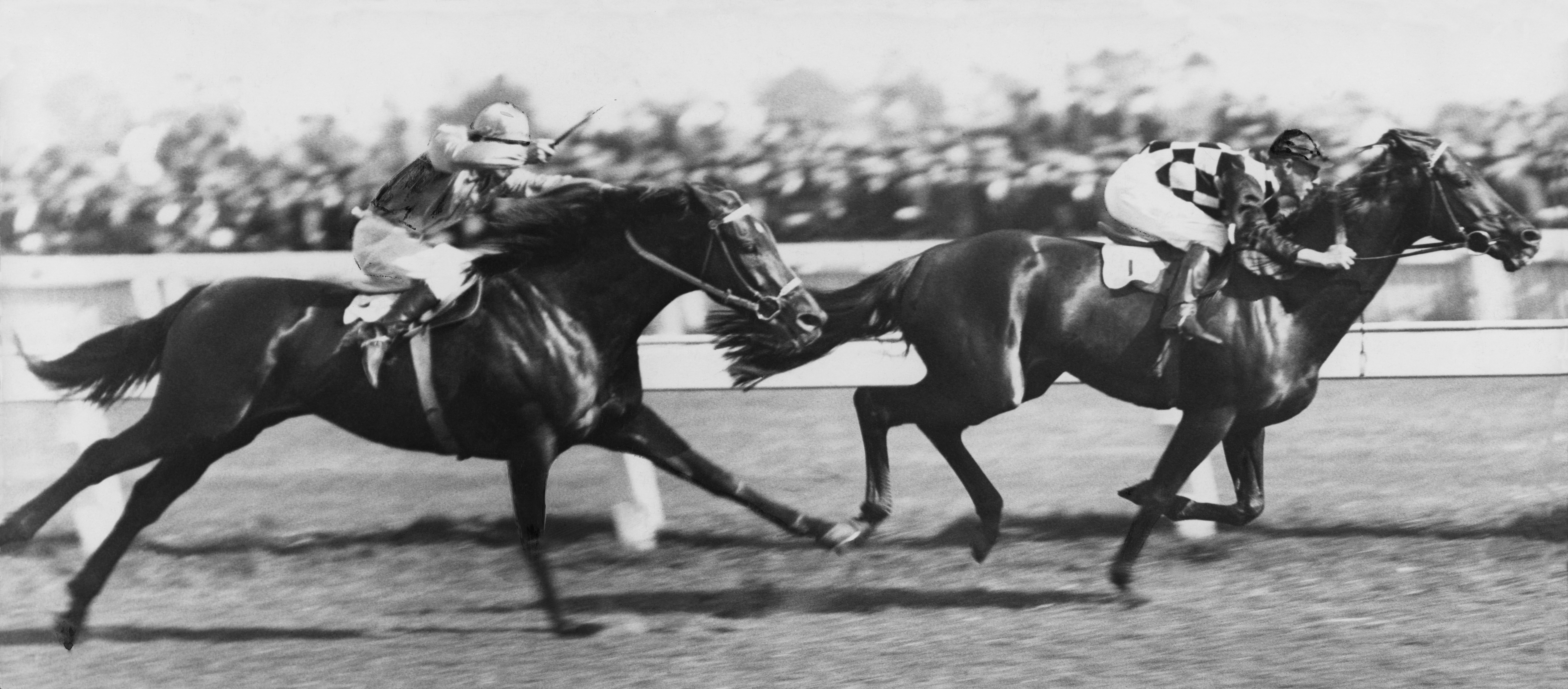 High resolution scan from original digitally optimised